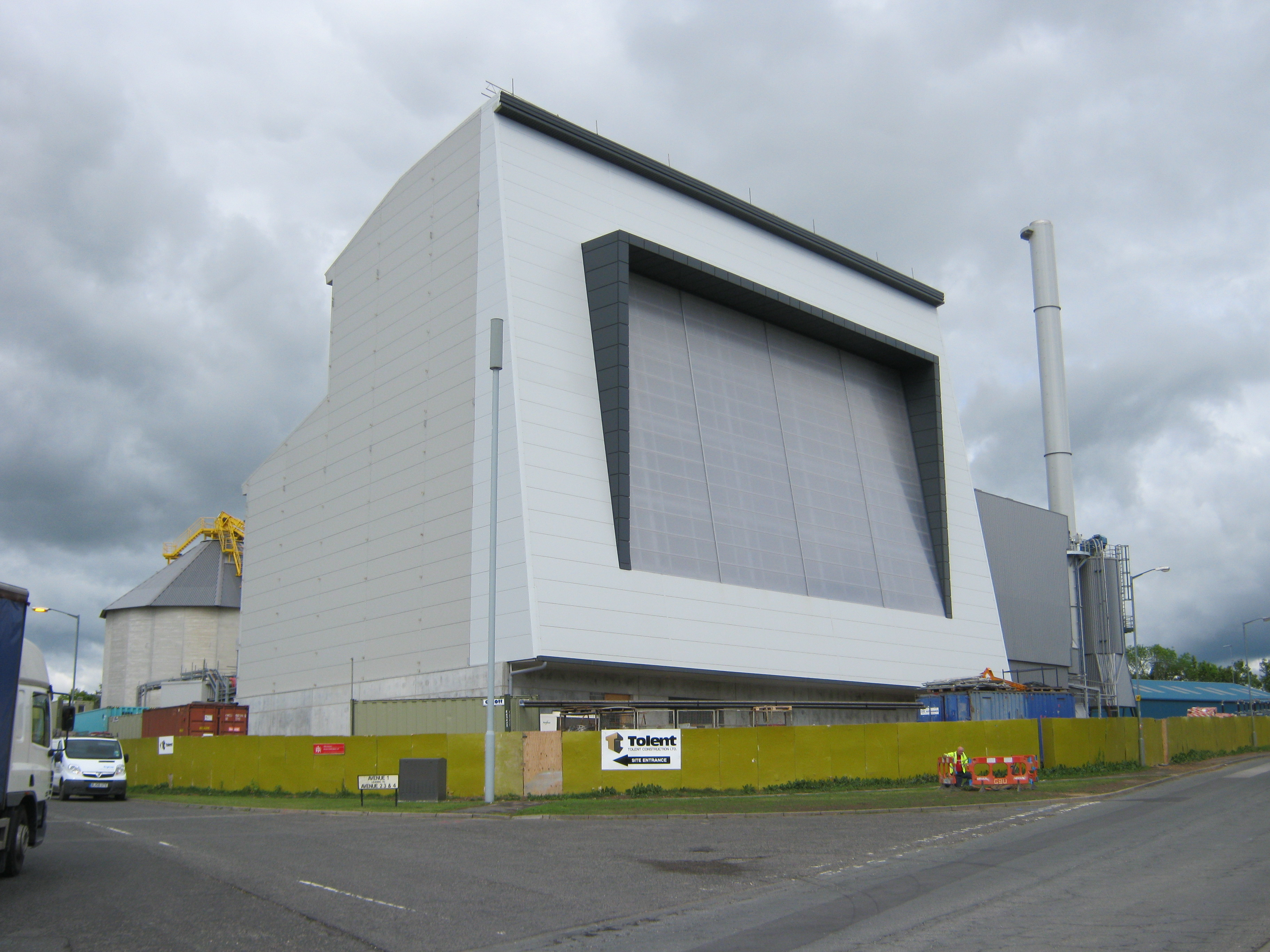 Chilton Biomass Energy Centre County Durham, Data from Geograph: Description: NZ2830 :: Chilton Biomass Energy Centre County Durham, near to Chilton, County Durham, Great Britain ICBM: 54.667085191042, -1.5646108612687 Location: (about 1 km from) near to Chilton, County Durham, Great Britain.